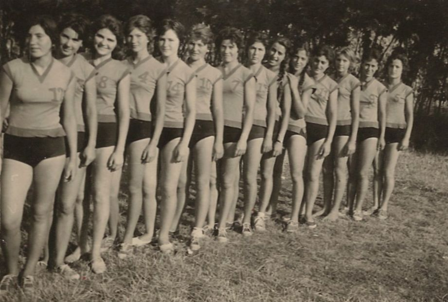 Basketball feam Vihar Aldomirovtzi, Bulgaria